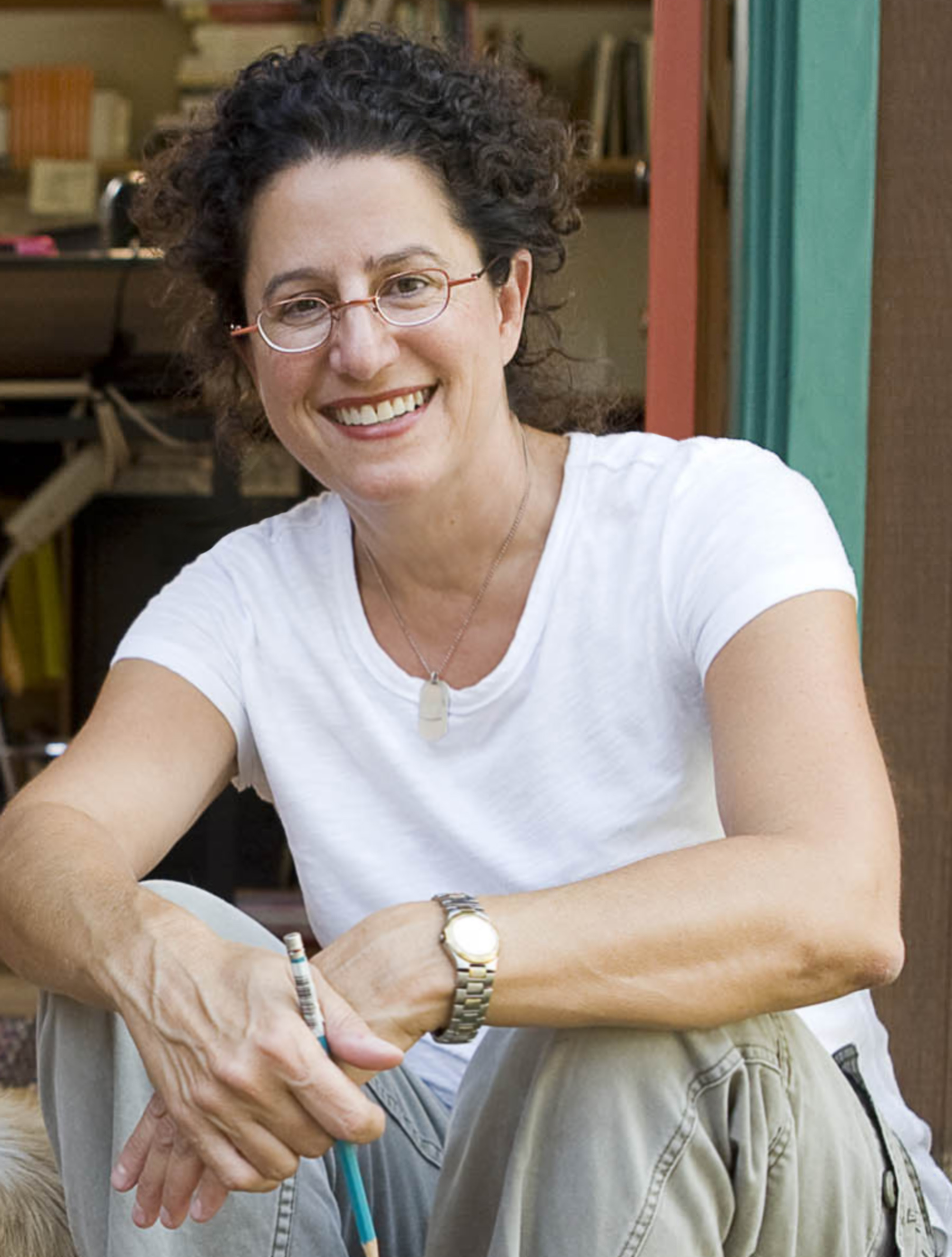 A photo of Marla Frazee, to which I have the rights.